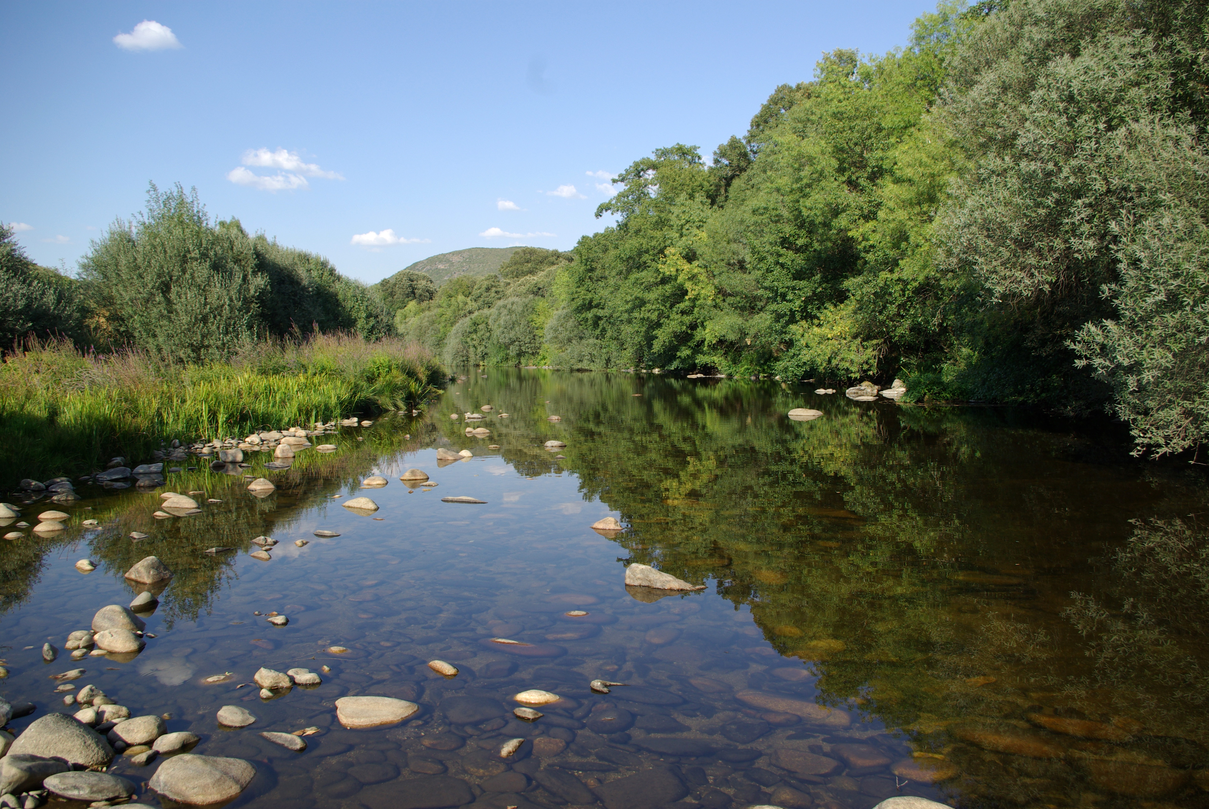 River Alagón in Sotoserrano (Salamanca, Spain)